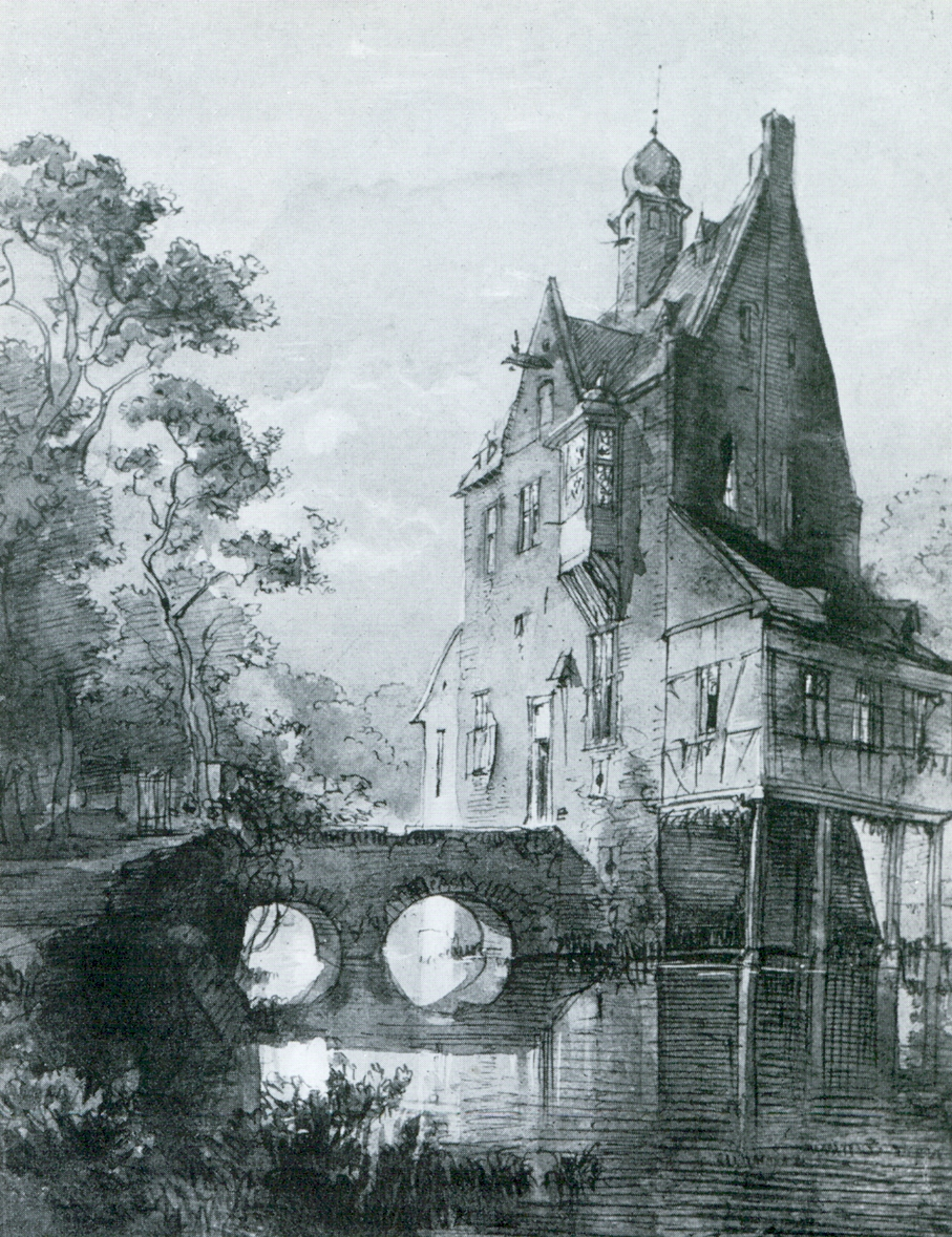 Quadenhof Castle in Duesseldorf-Gerresheim, Germany, ca. 1840